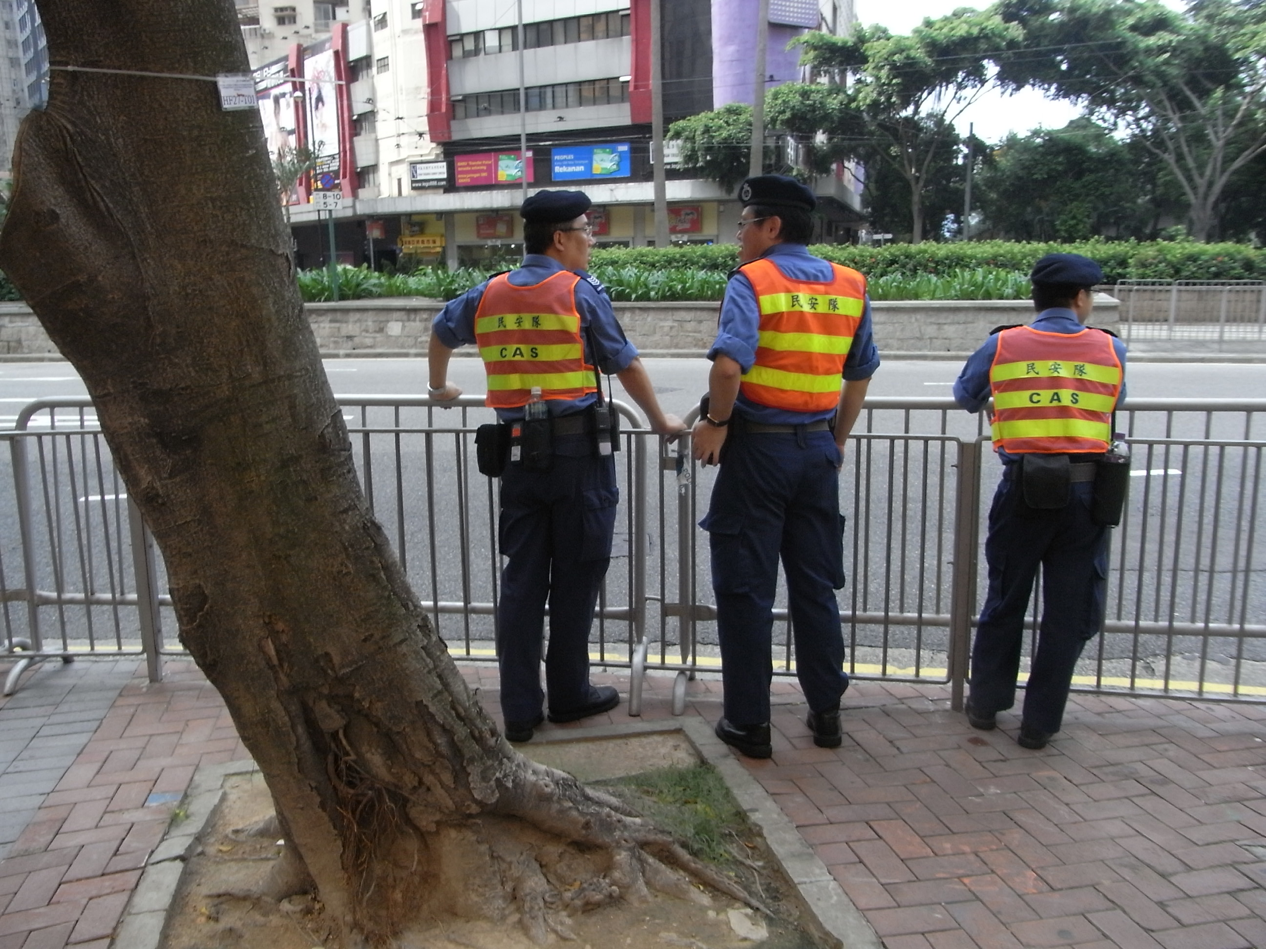 銅鑼灣 禮頓道 民眾安全服務隊